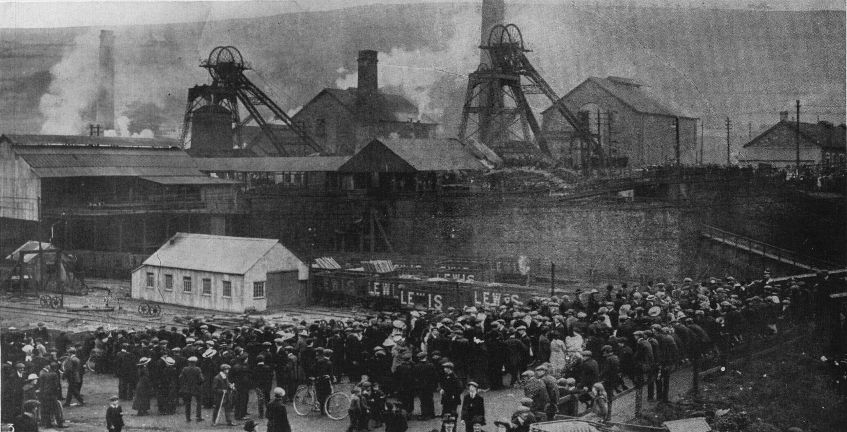 Photograph from The Illustrated London News of 18 October 1913 (issue 3887; page 4). Article titled "The Burning Pit Disaster: Rescue Scenes at the Universal Colliery".